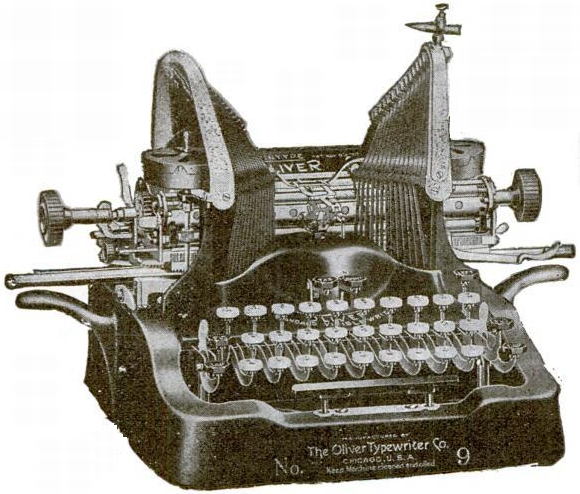 Oliver Typewriter. Model No. 9